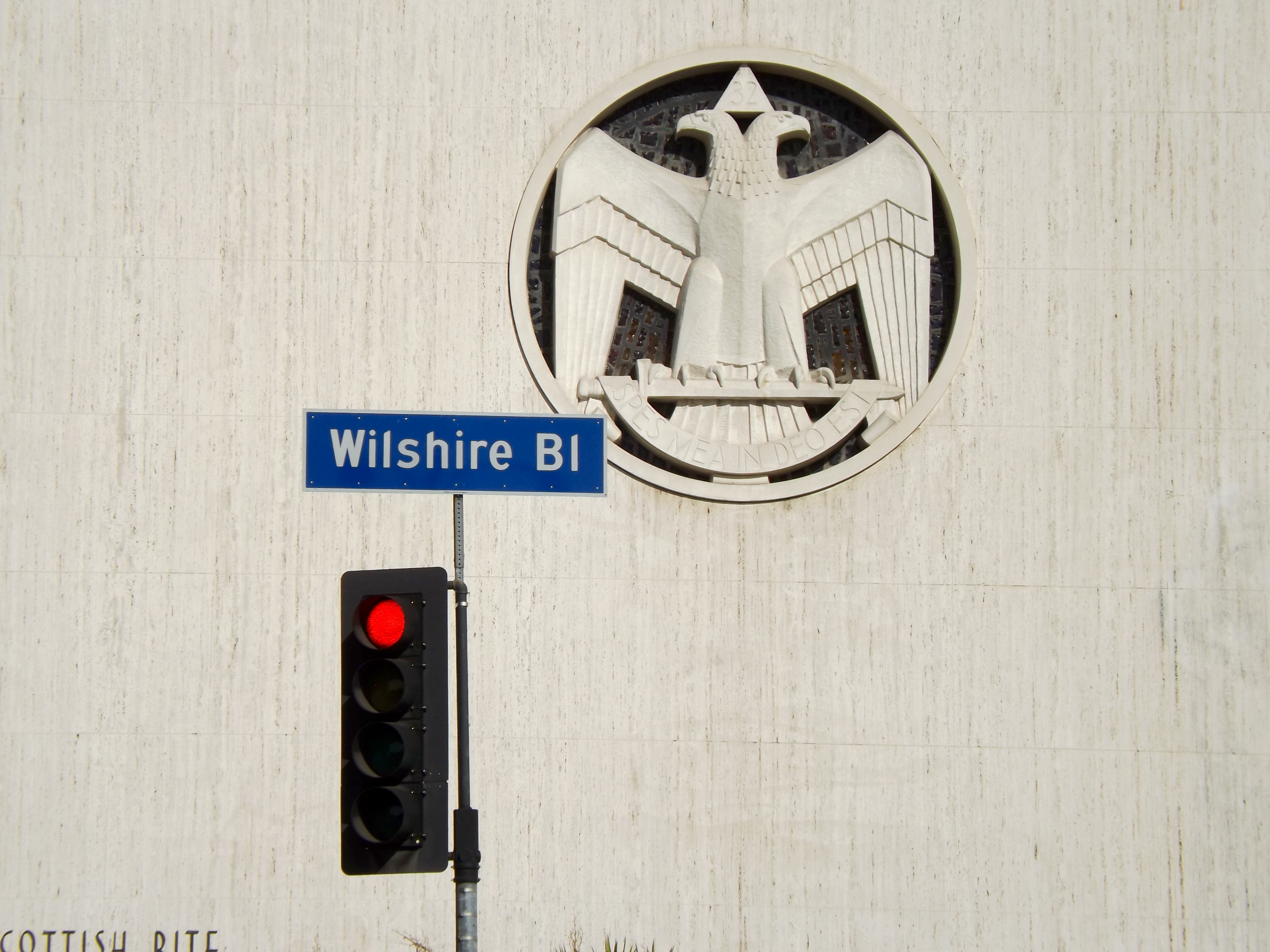 Wilshire Boulevard street sign at Scottish Rite Temple, 2015. Photo also shows traffic light. Other information Photo by George Garrigues.